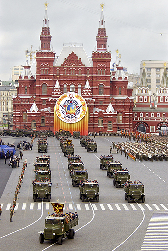 RED SQUARE, MOSCOW. Military parade celebrating the sixtieth anniversary of victory in World War II.